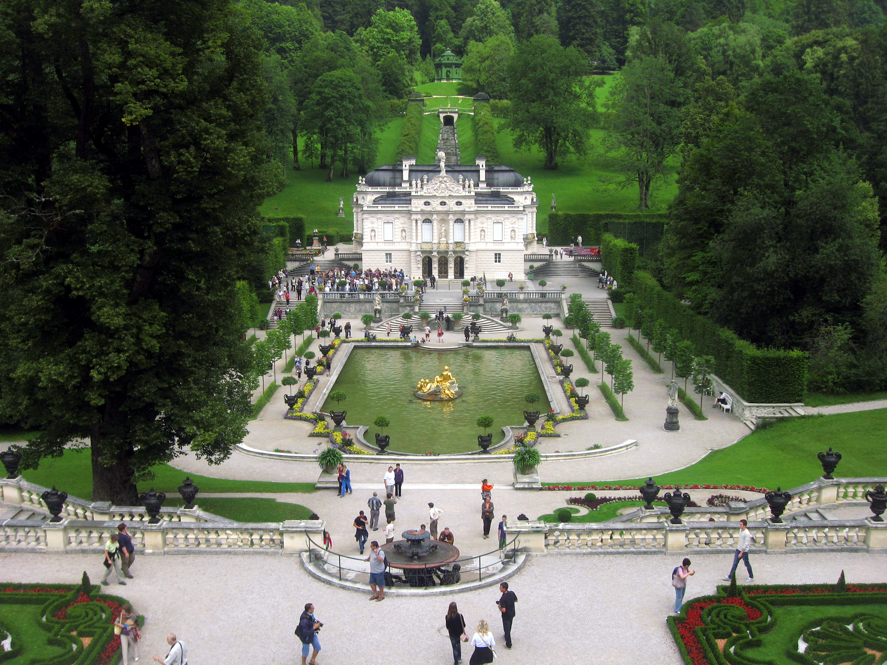 Linderhof Castle, Germany